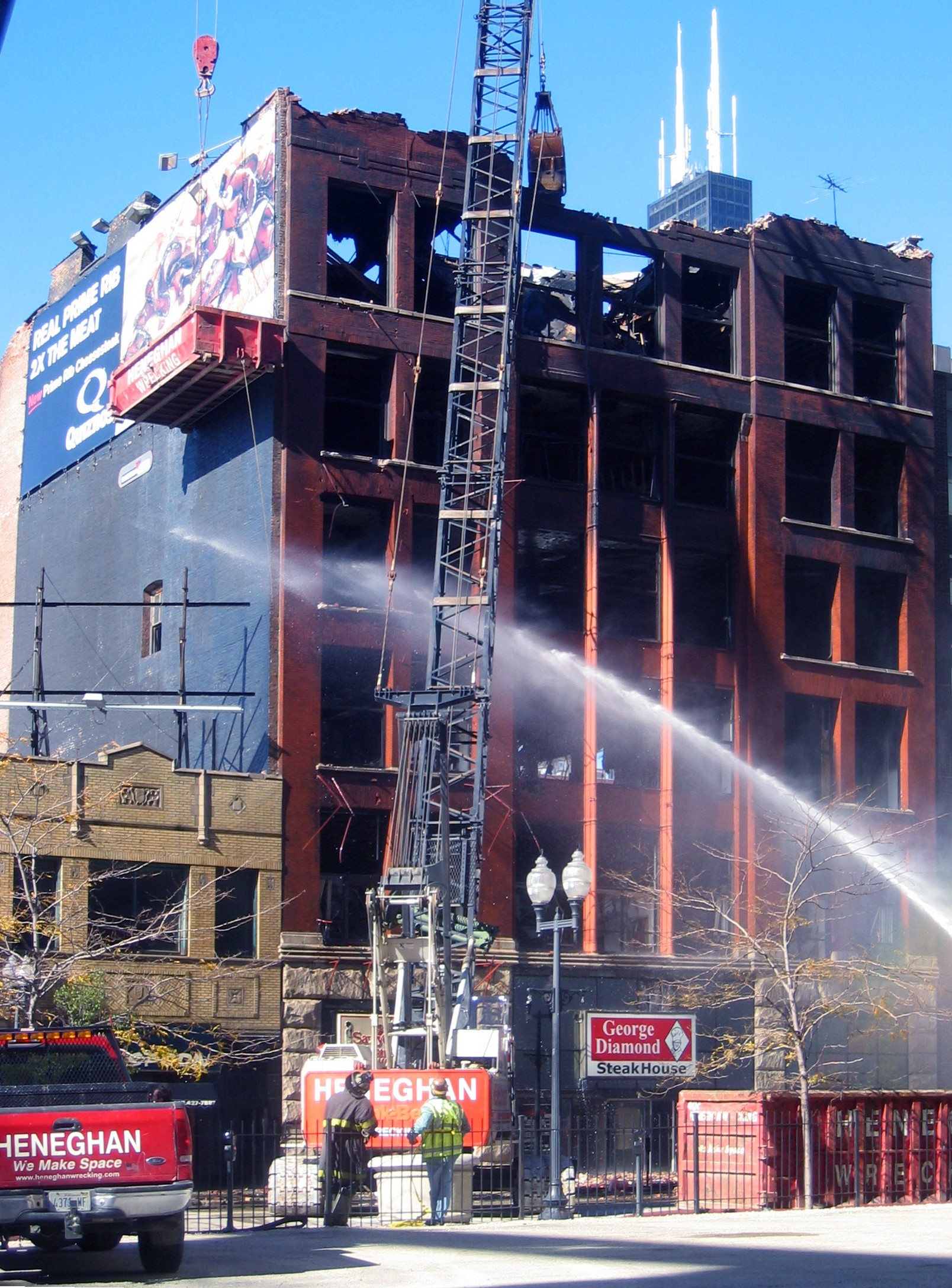 The Dexter Building in Chicago, Illinois under demolition following the fire of 24 October 2006.